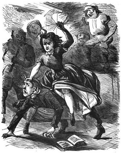 Illustration accompanying the George Washington Harris short story, "Bart Davis's Dance."